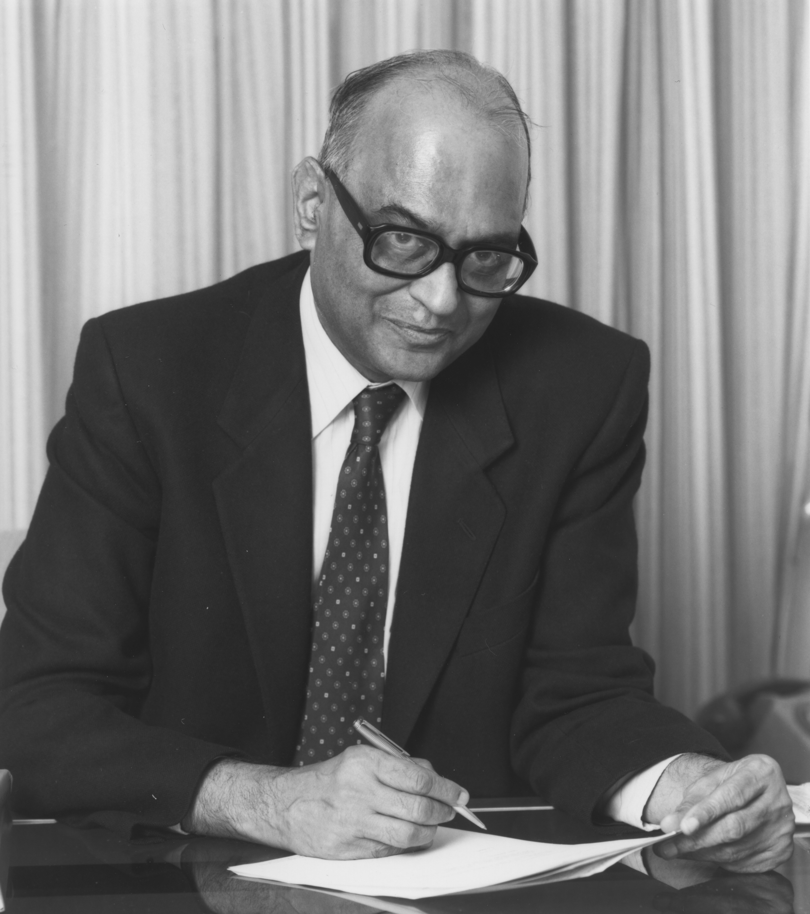 Director of LSE 1984-1990 IMAGELIBRARY/590 Persistent URL